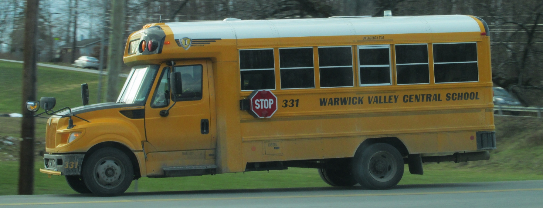 A side profile photograph of a IC AE-Series school bus.